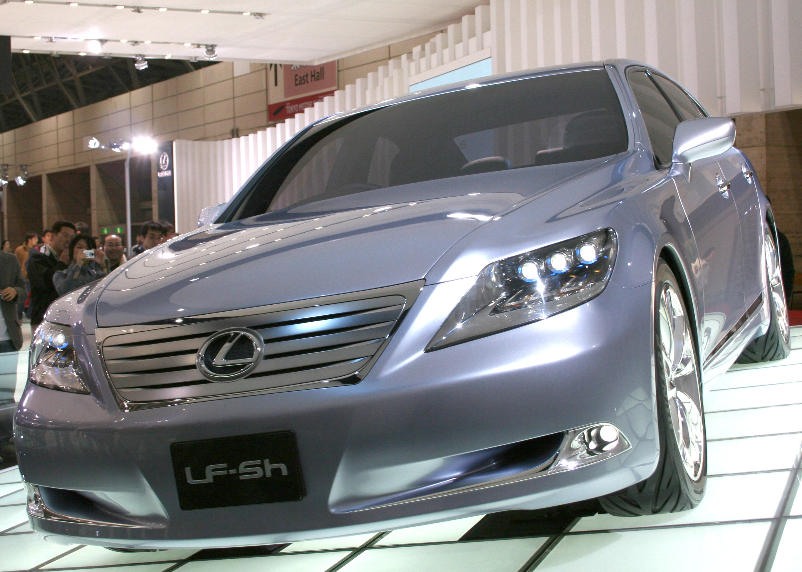 Lexus LF-Sh at the 2005 Tokyo Motor Show